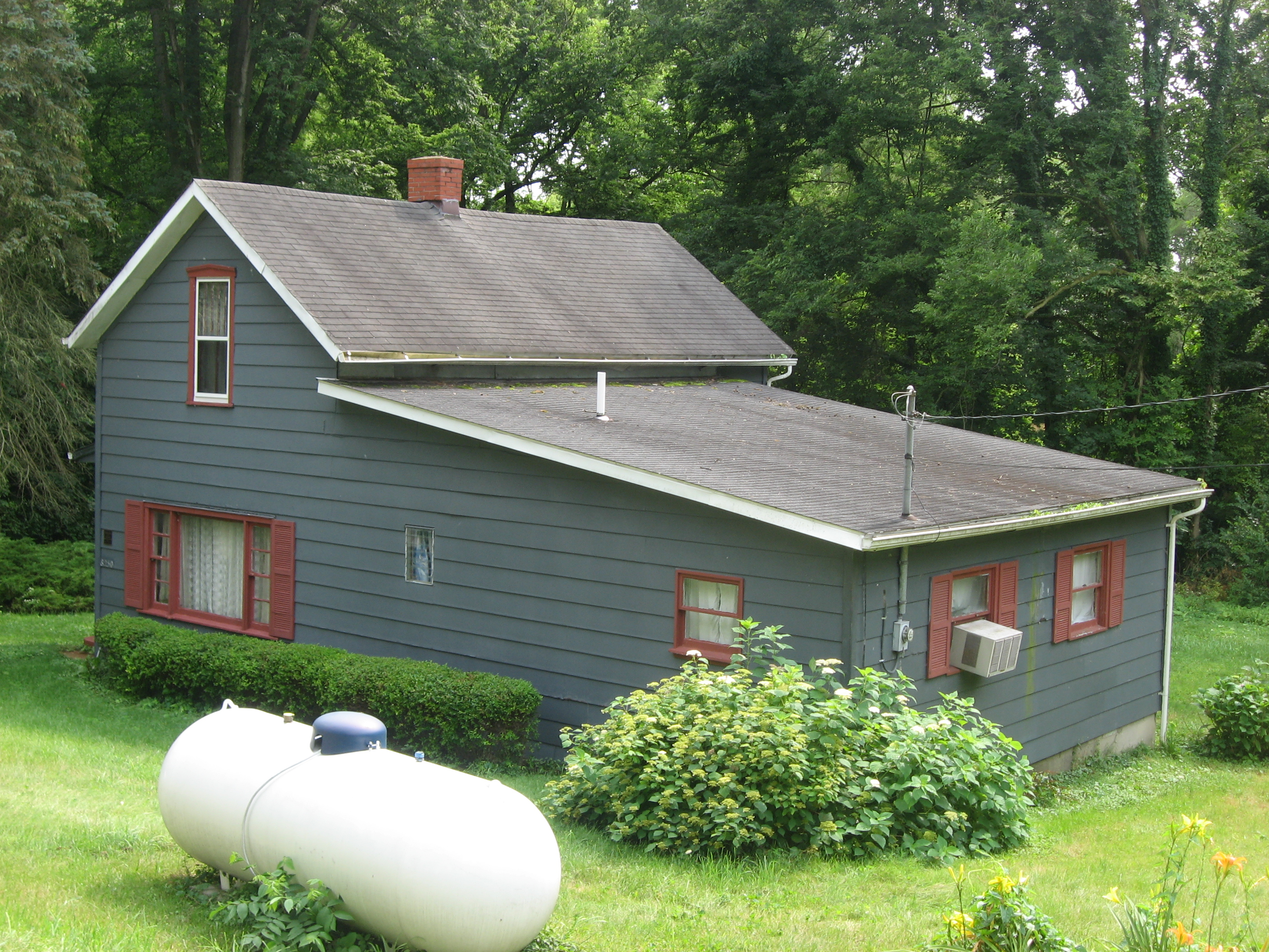 Side and rear of the York Rial House, located at the junction of McFarland and Miami Streets in the unincorporated community of Rossville, just north of Piqua in Spring Creek Township, Miami County, Ohio, United States. Built in 1890 and since converted into a museum, it is listed on the National Register of Historic Places.